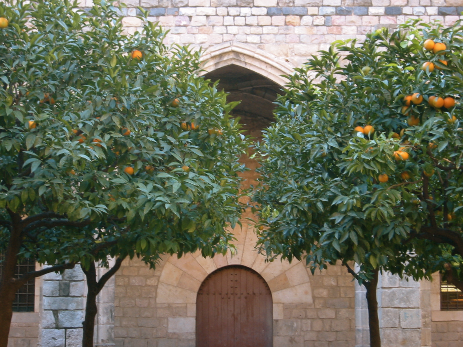 Orange trees in a Barcelona courtyard.